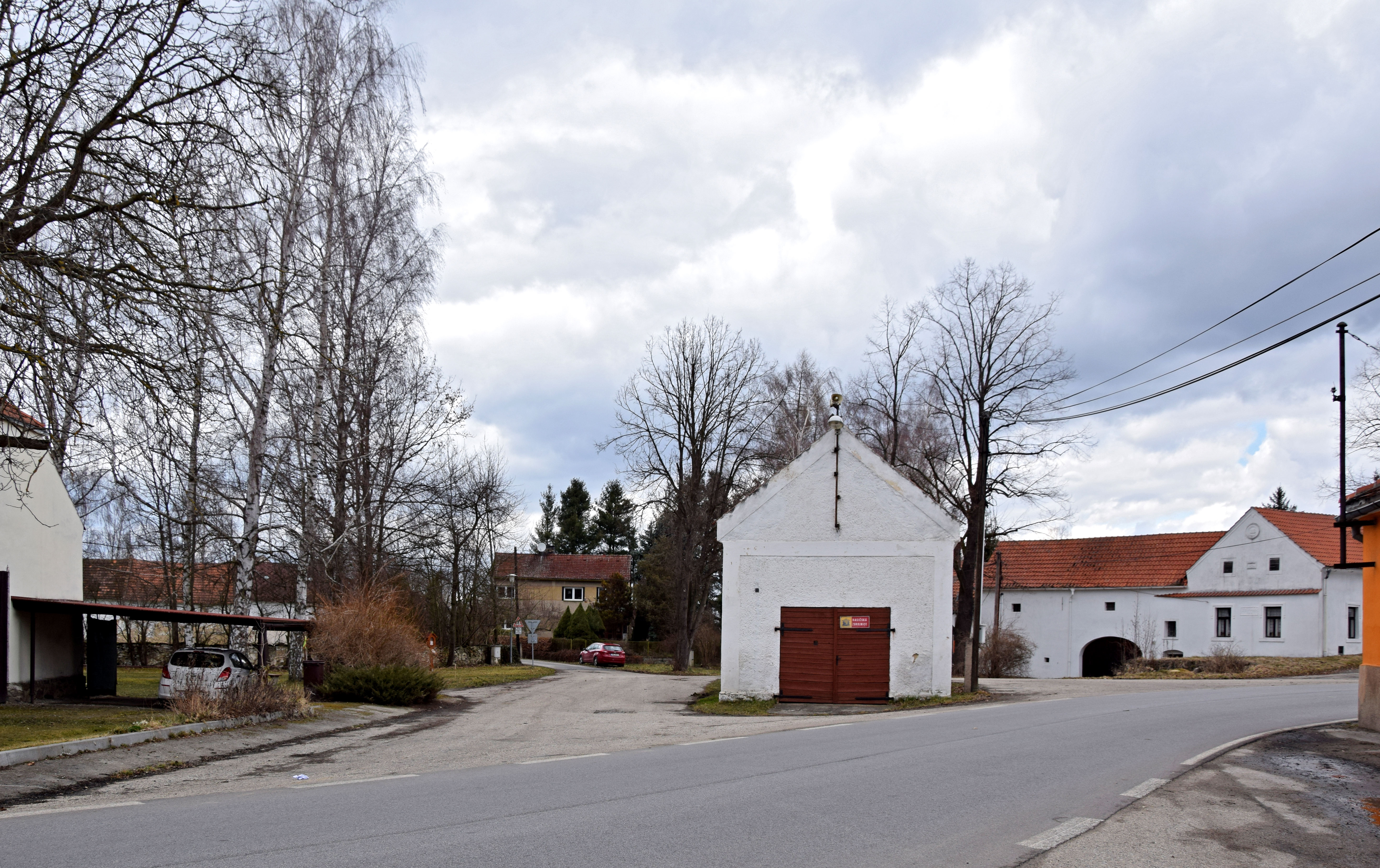 Fire station in the village of Prostřední Svince, Český Krumlov district, the Czech Republic.